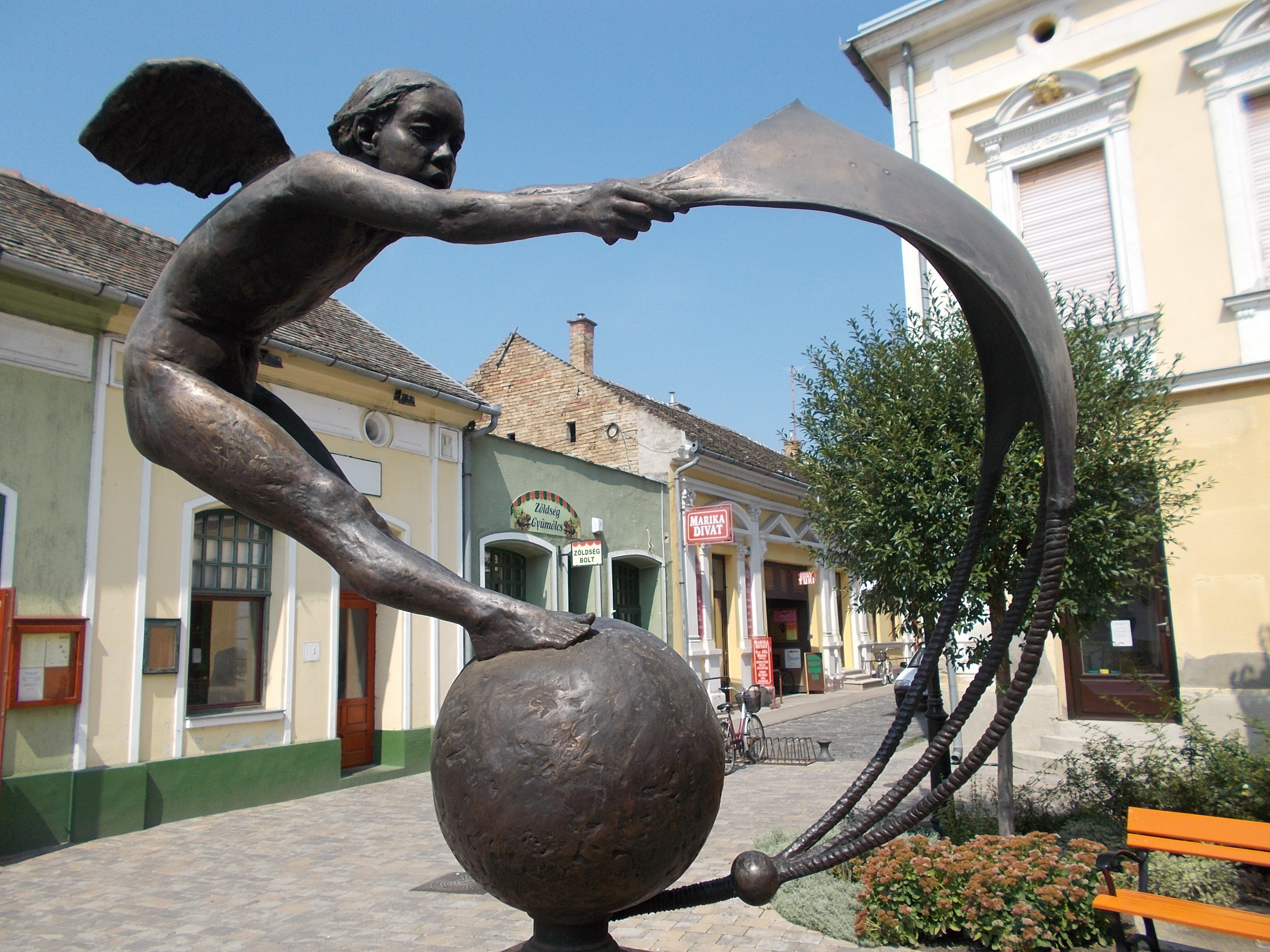 Windboy statue. - Szabadság Square, Nagykőrös, Pest County, Hungary